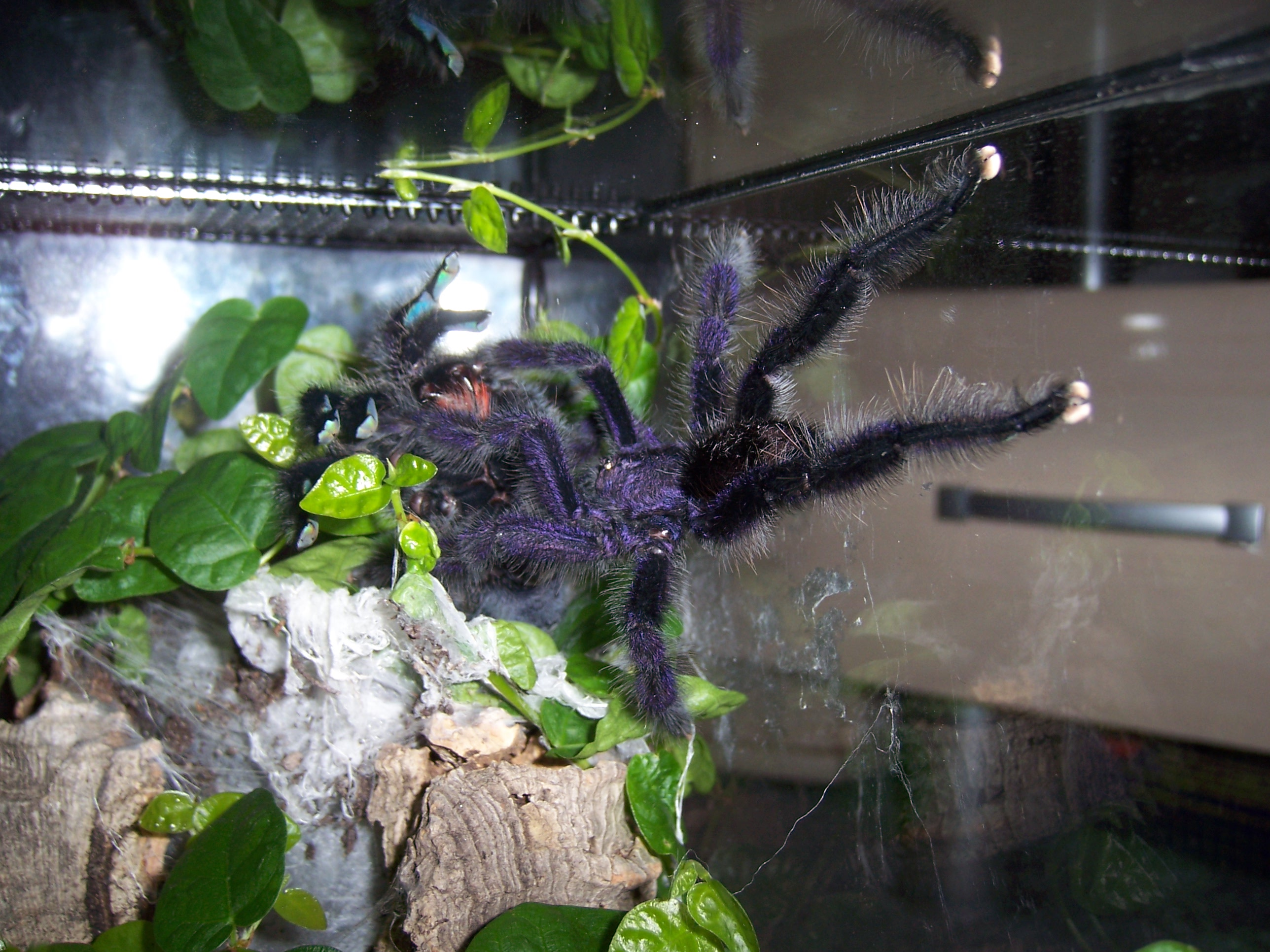 Claimed to be "mate of avicularia purpurea". Doubtful; possibly Avicularia juruensis.